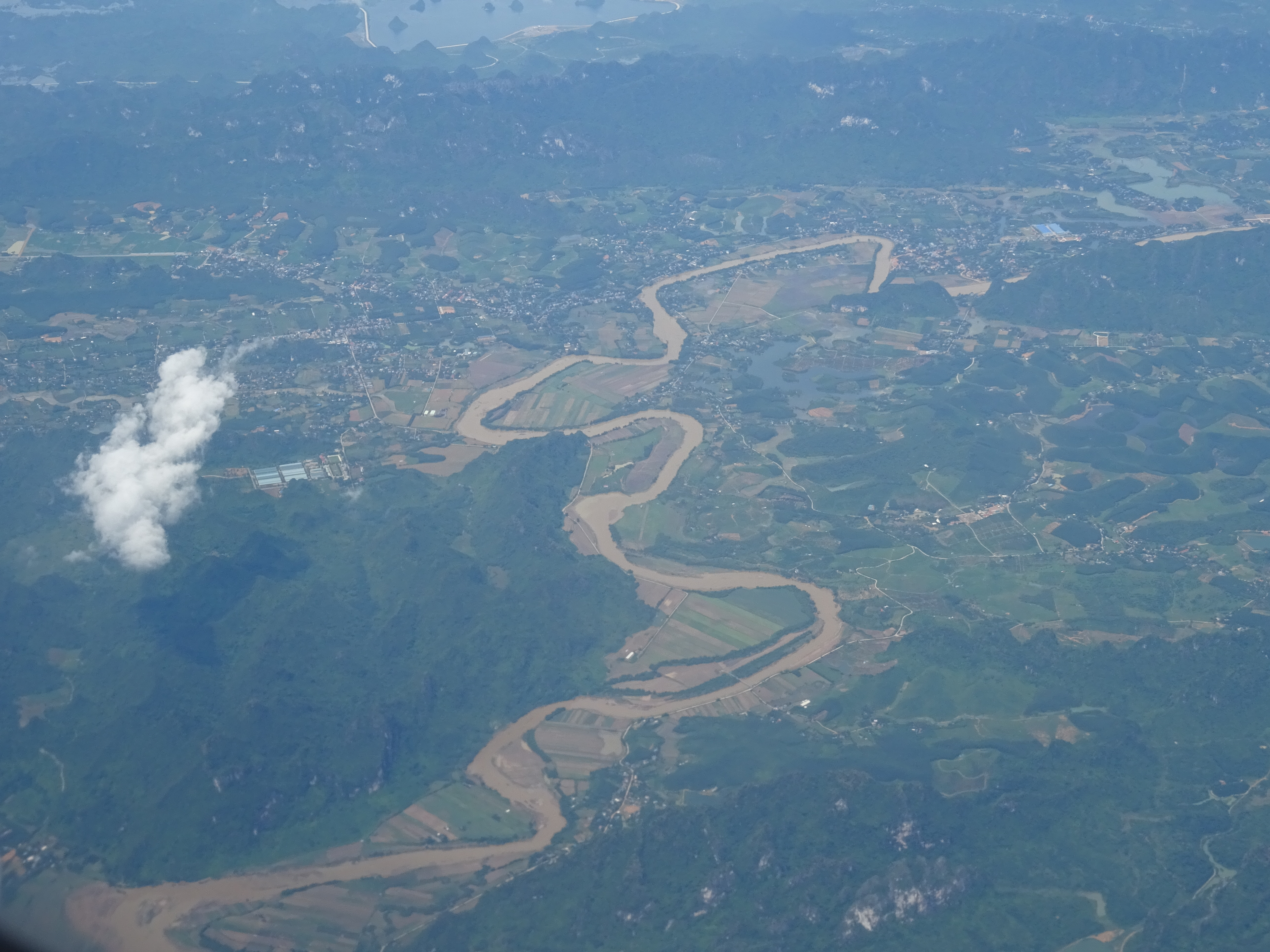 The Bôi River in the Lạc Thủy district of Hòa Bình province seen from a plane flying from Phu Bai International Airport to Noi Bai International Airport.